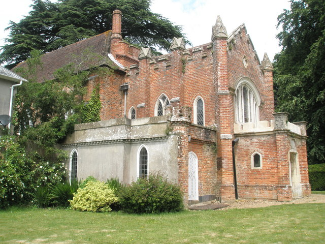 St Paul's Church, Stansted Park, West Sussex, England, seen from the southeast